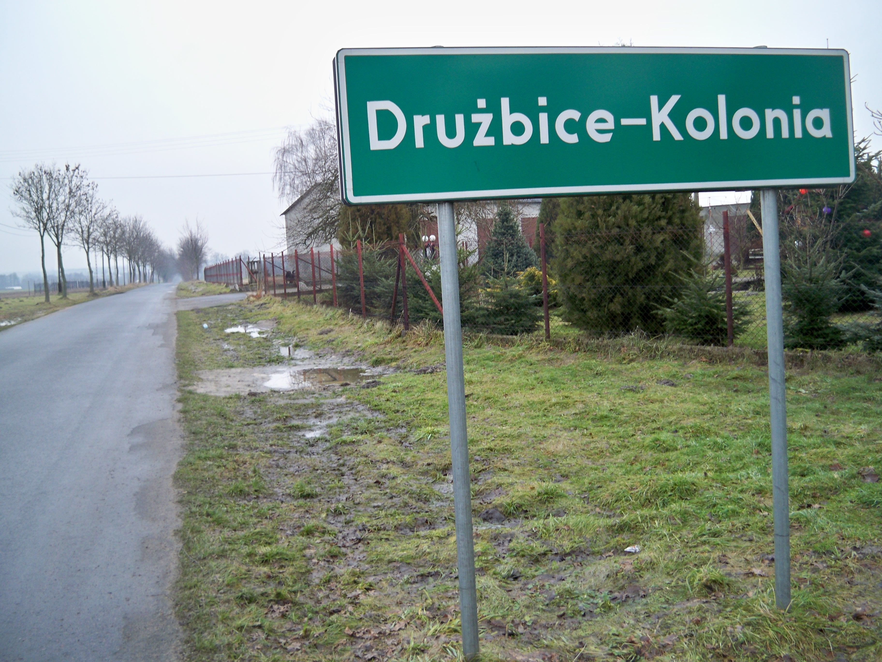 My photo